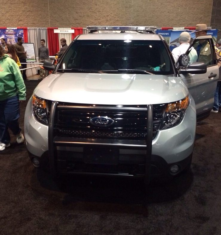 Connecticut State Police Cruiser Utility